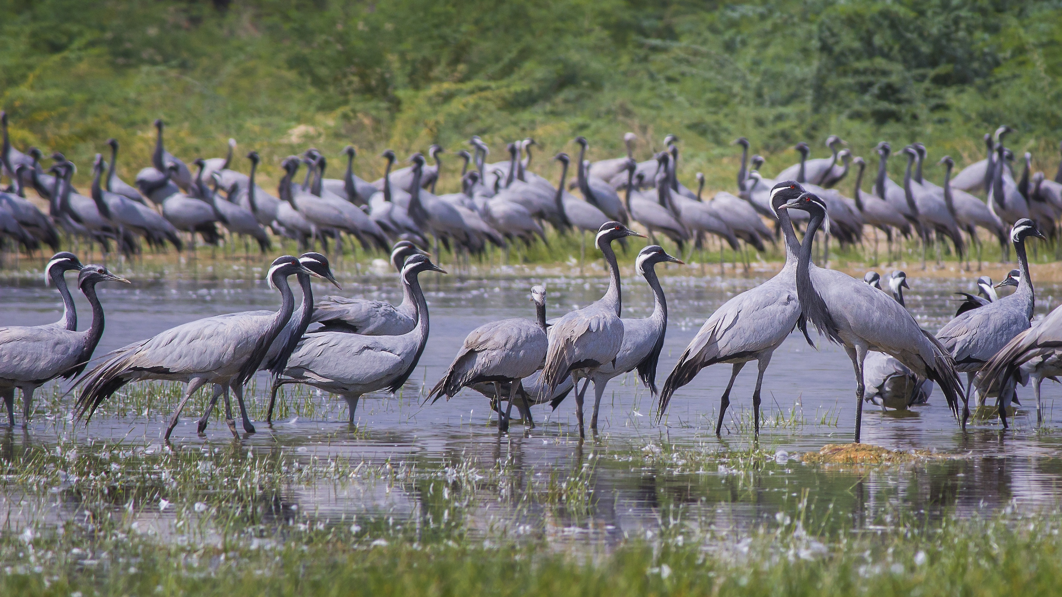 This Photograph was made at Jodhpur Bishnoi's Village..